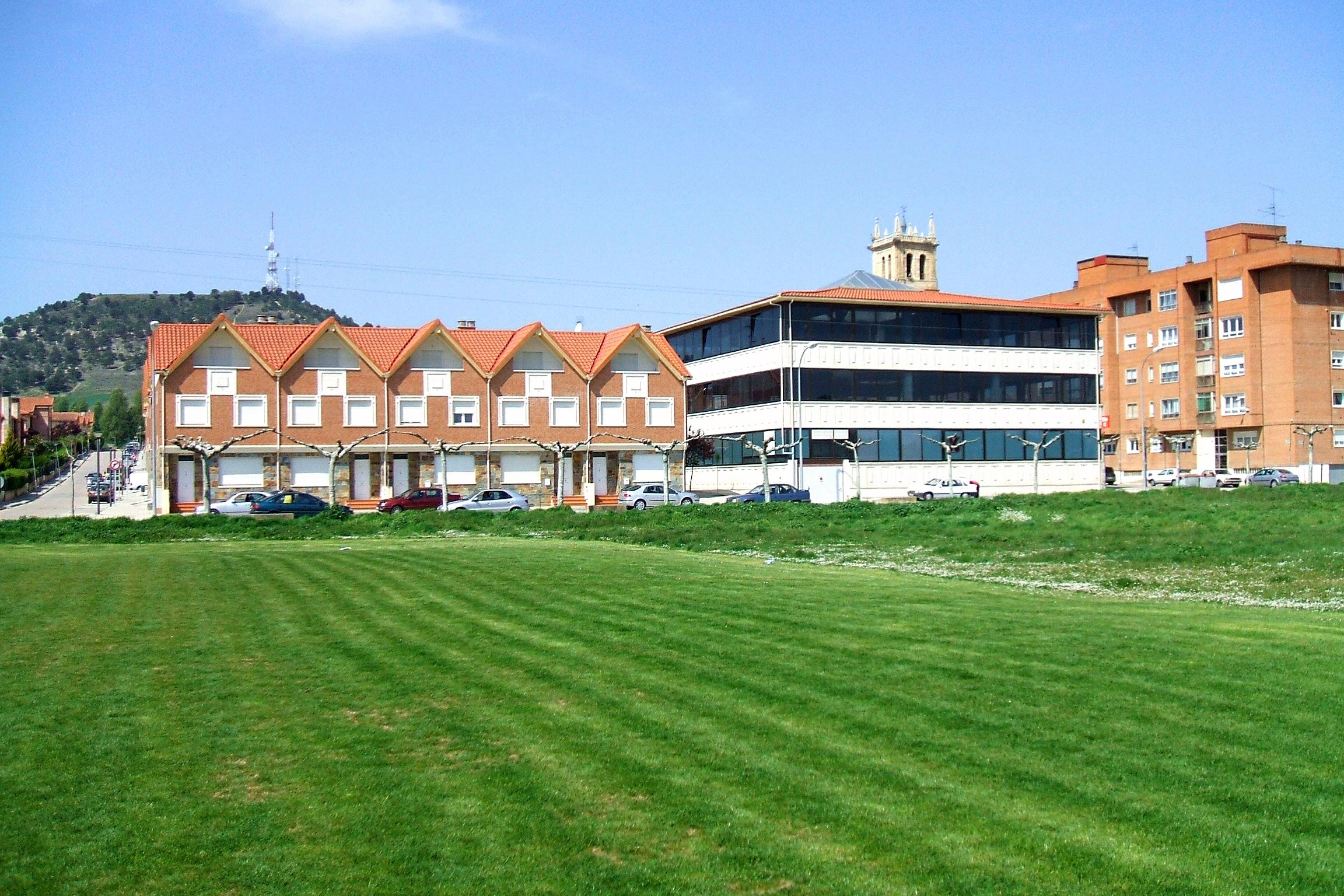 Aspecto del desarrollo urbanístico de Villamuriel de Cerrato (Palencia, Castilla y León, España)